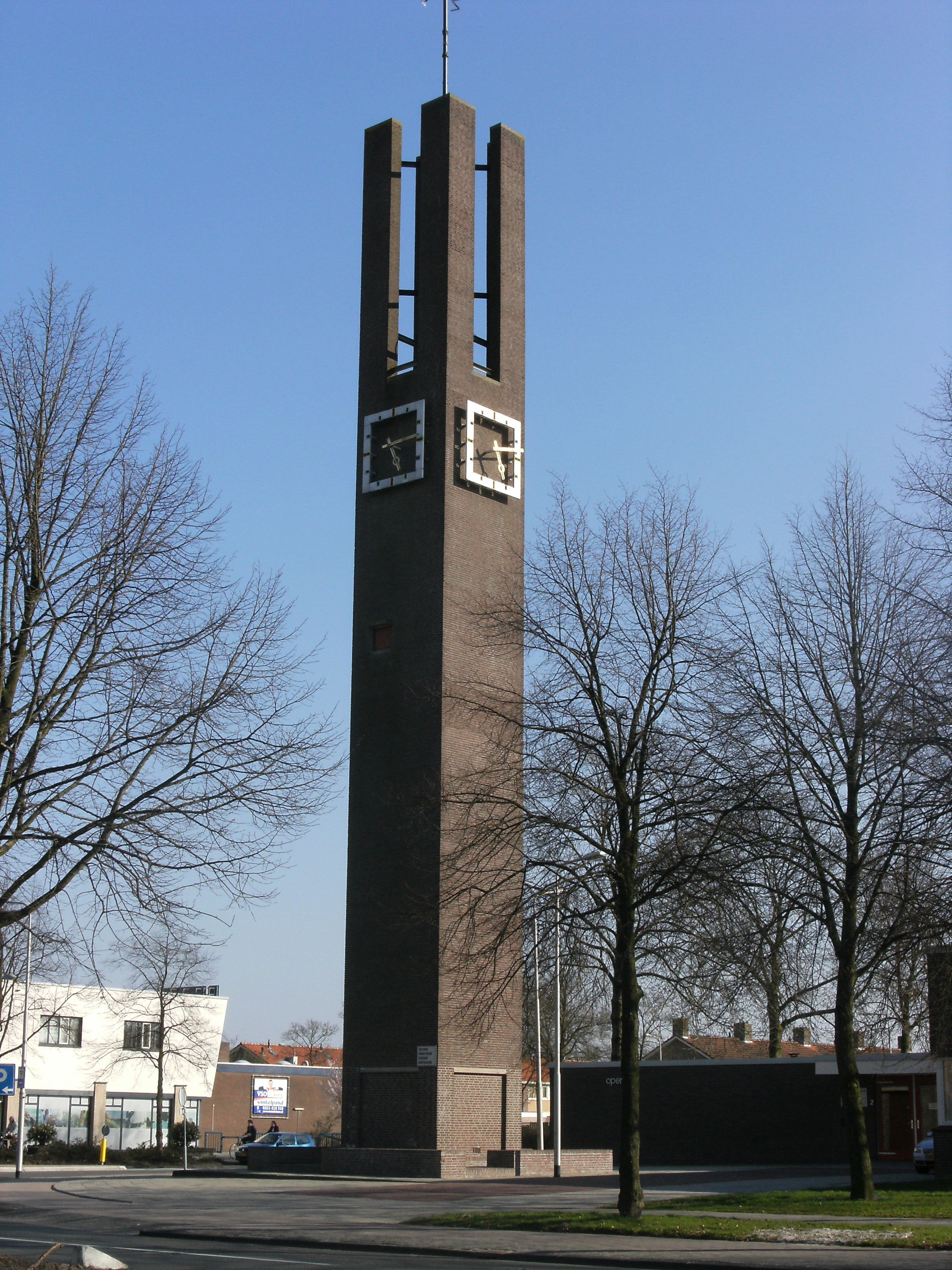 Bell tower Dronten.